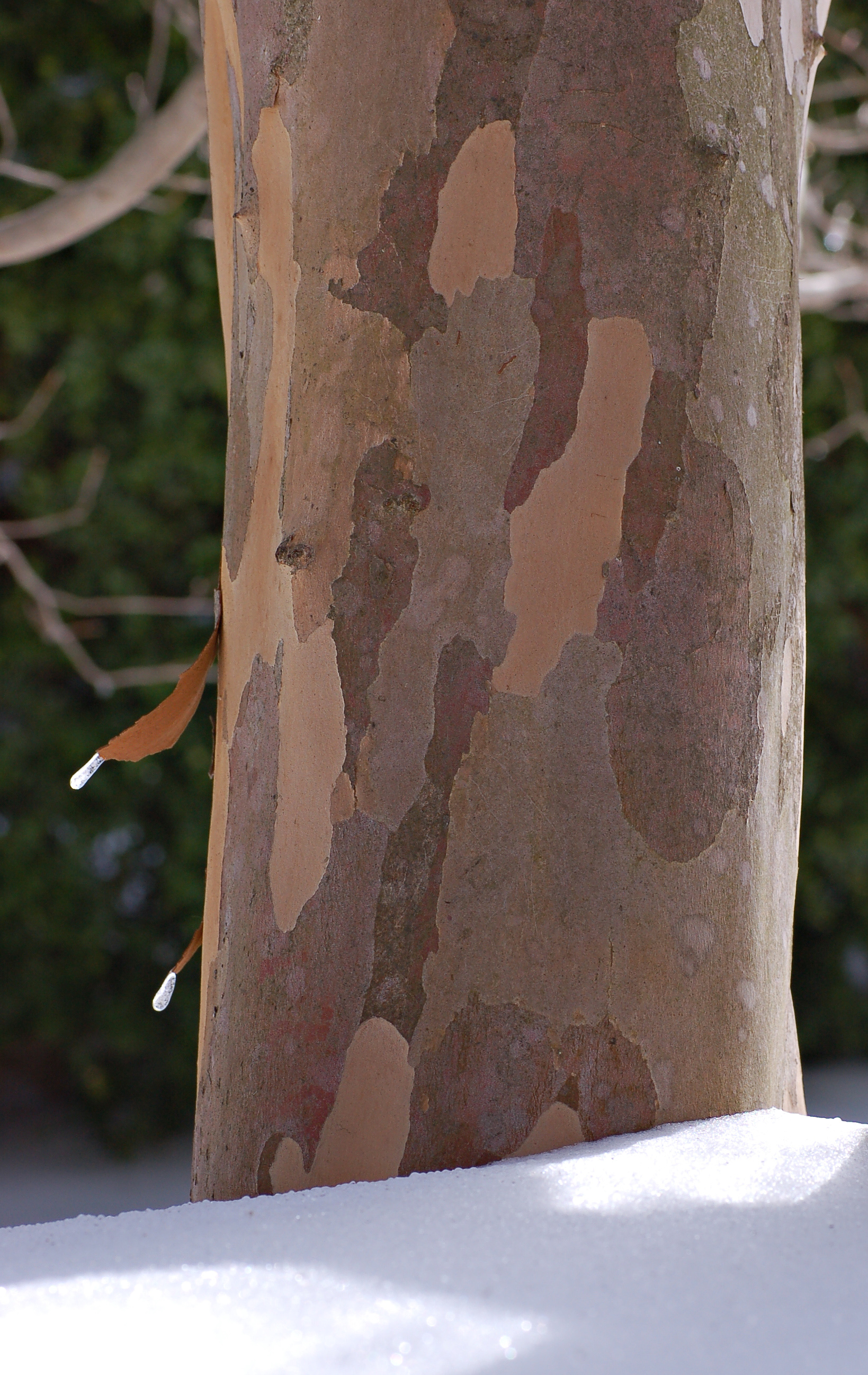 Photograph of the trunk base of the Japanese Stewartiaen (Stuartia pseudocamellia en ). Photo taken at the Tyler Arboretum where it was identified.